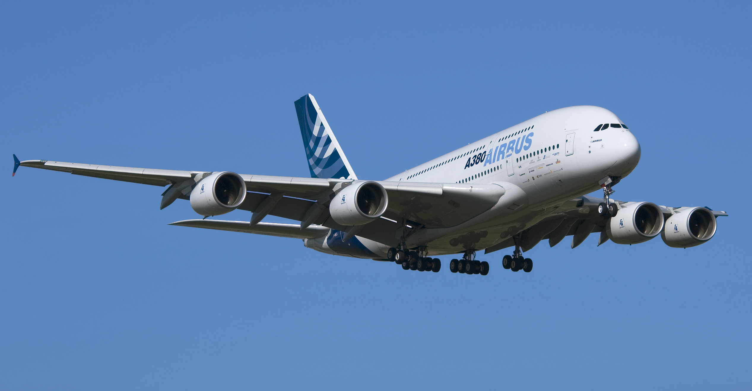 Airbus A380 F-WWEA MSN009 landing on its first visit to the Airbus factory at Getafe (LEGT). Note the Engine. Alliance logo on the engines. This is the first GP7000-powered A380. You can contribute by translating this description into more languages.